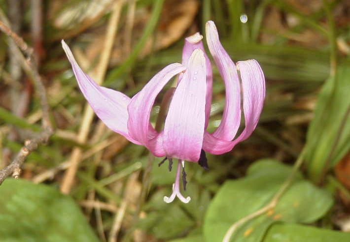 Katakuri, Dogtooth violet,in Senboku city,Akita pref.Japan